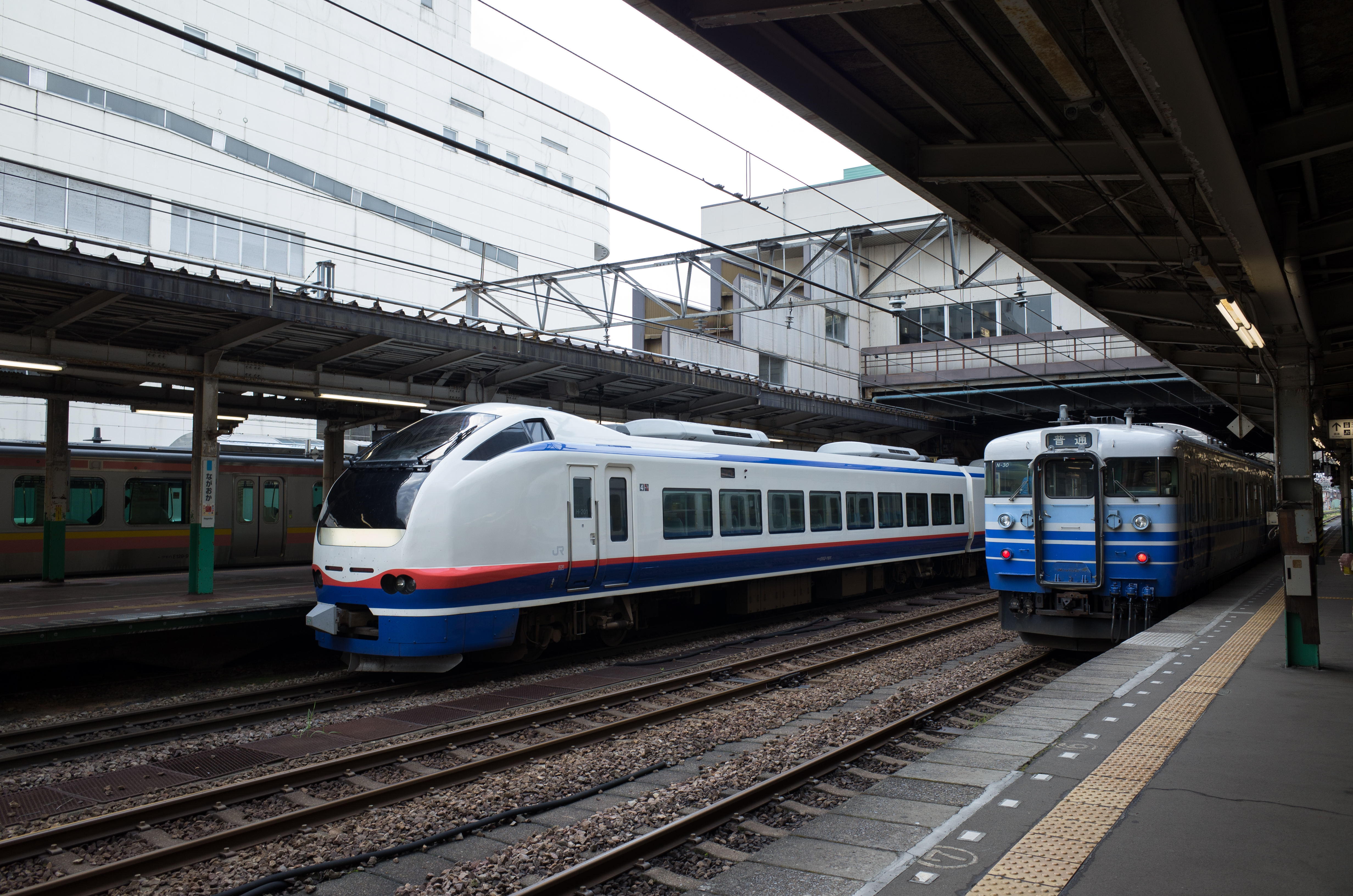 The platforms at Nagaoka Station in Nagaoka, Niigata Prefecture, Japan, with JR East E129 series, E653-1100 series, and 115 series EMUs visible